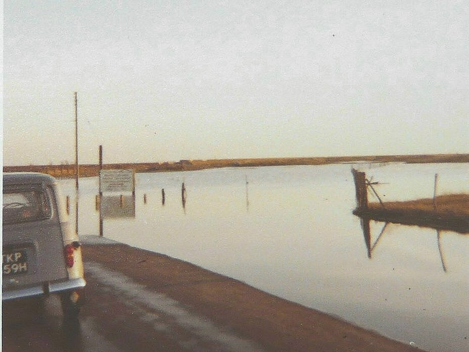 Littlestone Golf Club car park in 1978